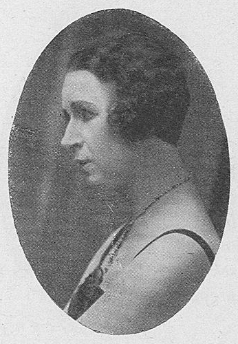 Finnish theatre personality, early 1930s.